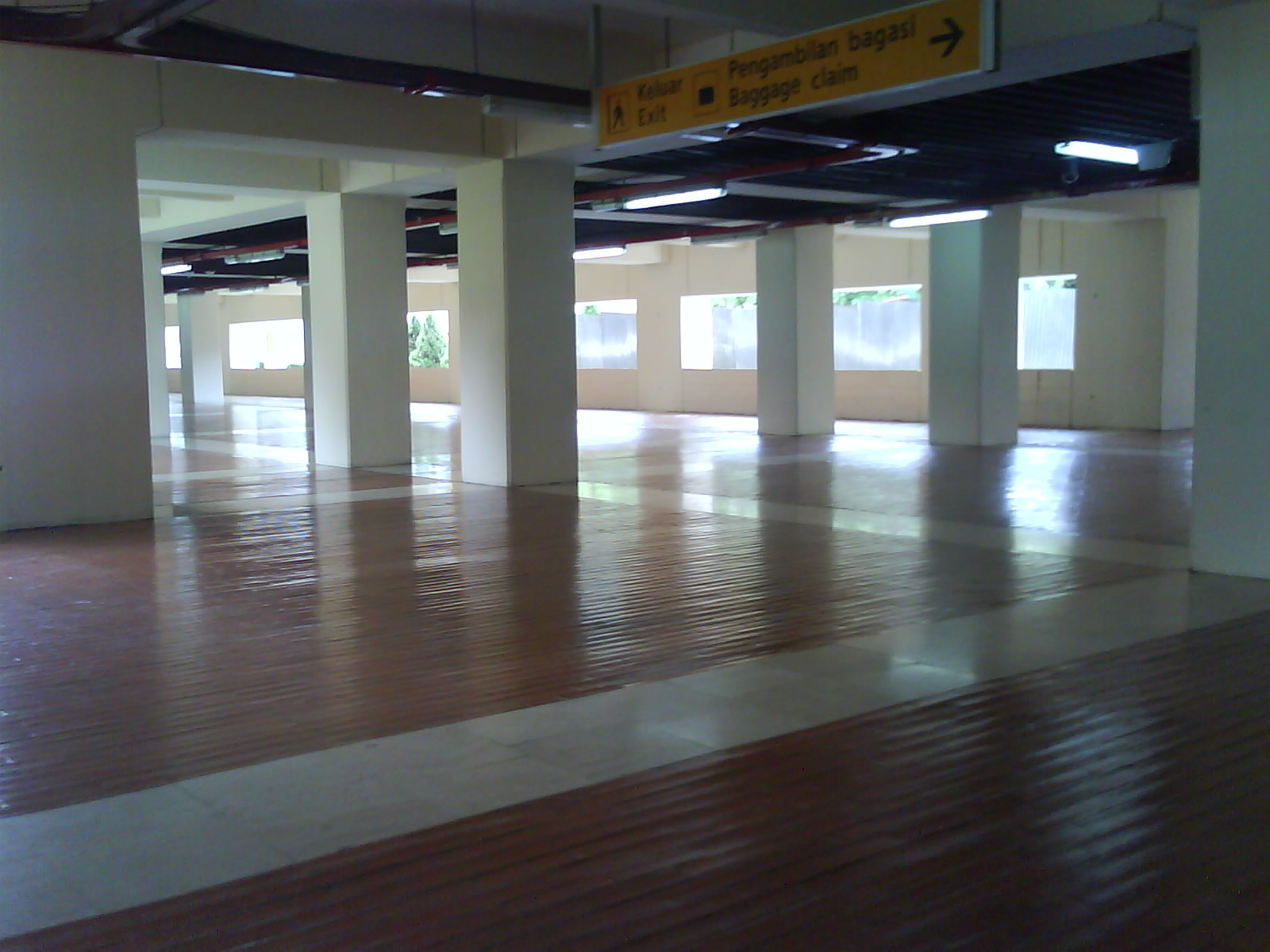 Soekarno-Hatta International Airport